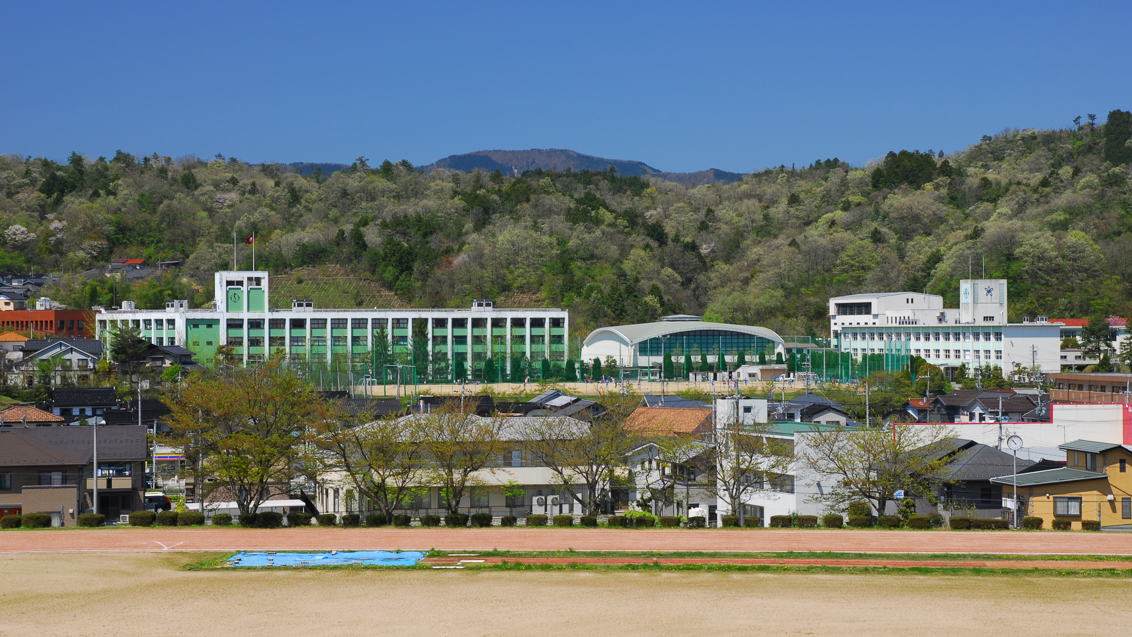 Kinki University Toyooka Junior College